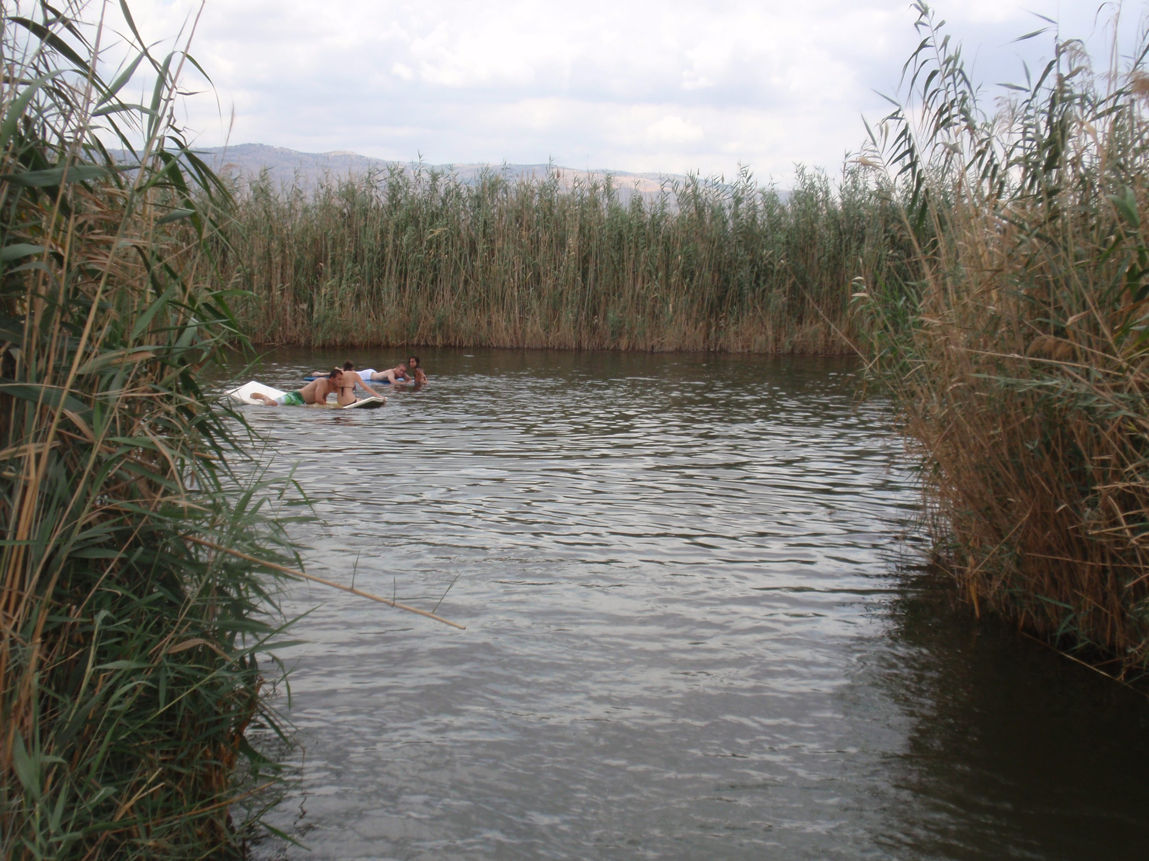 Ein Sukkot spring in Jordan rift valley, Israel.